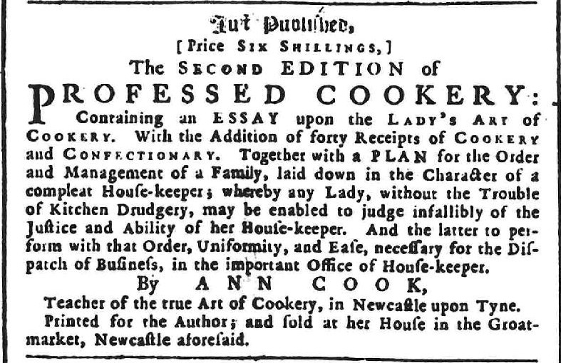 Advert for Professed Cookery, from The Newcastle Courant - 29 November 1755, p 1